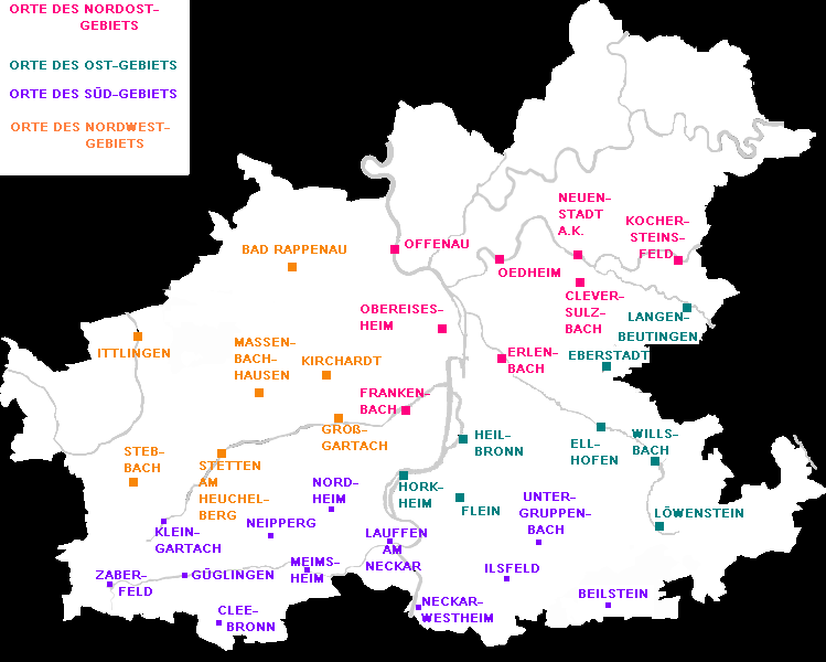 Karlheinz Jakob:Dialekt und Regionalsprache im Raum Heilbronn. Zur Klassifizierung von Dialektmerkmalen in einer dialektgeographischen Übergangslandschaft. Teil 2: Kartenband. Karte 2 [Gebietsgliederung der Mundarten im Raum Heilbronn], Elwert, Marburg 1985.PNG